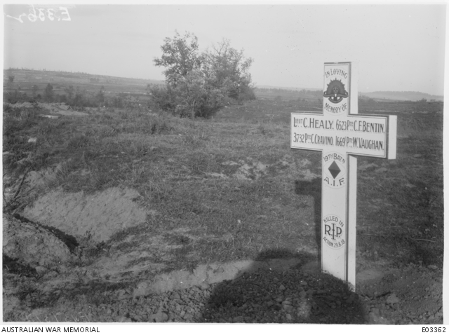 The grave of Lieutenant Cecil Healy, the Australian Champion swimmer; 6523 Private (Pte) C. F. Bentin; 3732 Pte C. Cravino, and 1669 Pte W. Vaughan, all members of the 19th Battalion, who fell in the fighting near Peronne on 29 August 1918. Mont St Quentin can be seen at top left corner.